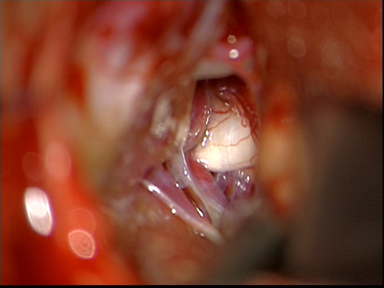 Nervo trigemino circondato e compresso da vasi sanguigni (conflitto neuro-vascolare). Foto ottenuta con microscopio operatorio ad elevato ingrandimento durante la fase iniziale di un intervento di microdecompressione vascolare per nevralgia del trigemino. Trigeminal nerve folded and compressed by blood vessels (neuro-vascular conflict). This photo was obtained with surgical microscope at the early stage of a microvascular decompression operation for trigeminal neuralgia. Trigeminal nerve, visualized with surgical microscope (14 x) during an operation of microvascular decompression (MVD). After accessing the skull base behind the ear and gentle retraction of the cerebellar hemisphere, the trigeminal nerve is visualized at its origin from the brainstem, in the deepest portion of the brain. The compression from vessels - named neuro-vascular conflict - causes trigeminal neuralgia that is an extremely painful and disabling syndrome. The operation consists of resolution of neuro-vascular conflict by mobilization of the offending vessels and leads to resolution of the pain syndrome.